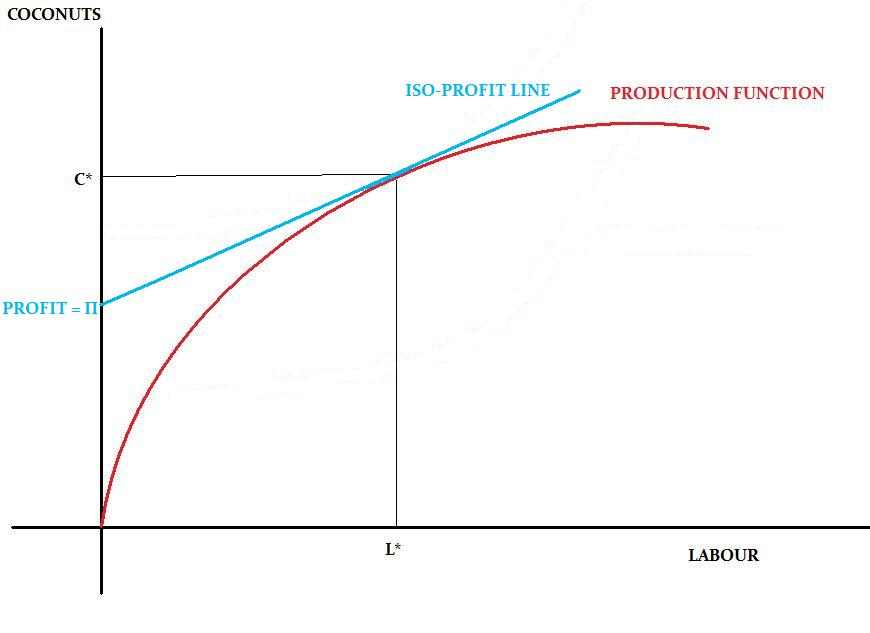 This graph shows the Profit Maximising Condition for the firm in the Robinson Crusoe Economy. The iso-profit line must be tangent to the production function.